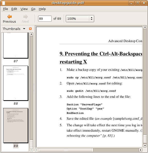 Evince on Ubuntu Feisty Fawn showing Ubuntu Desktop Guide